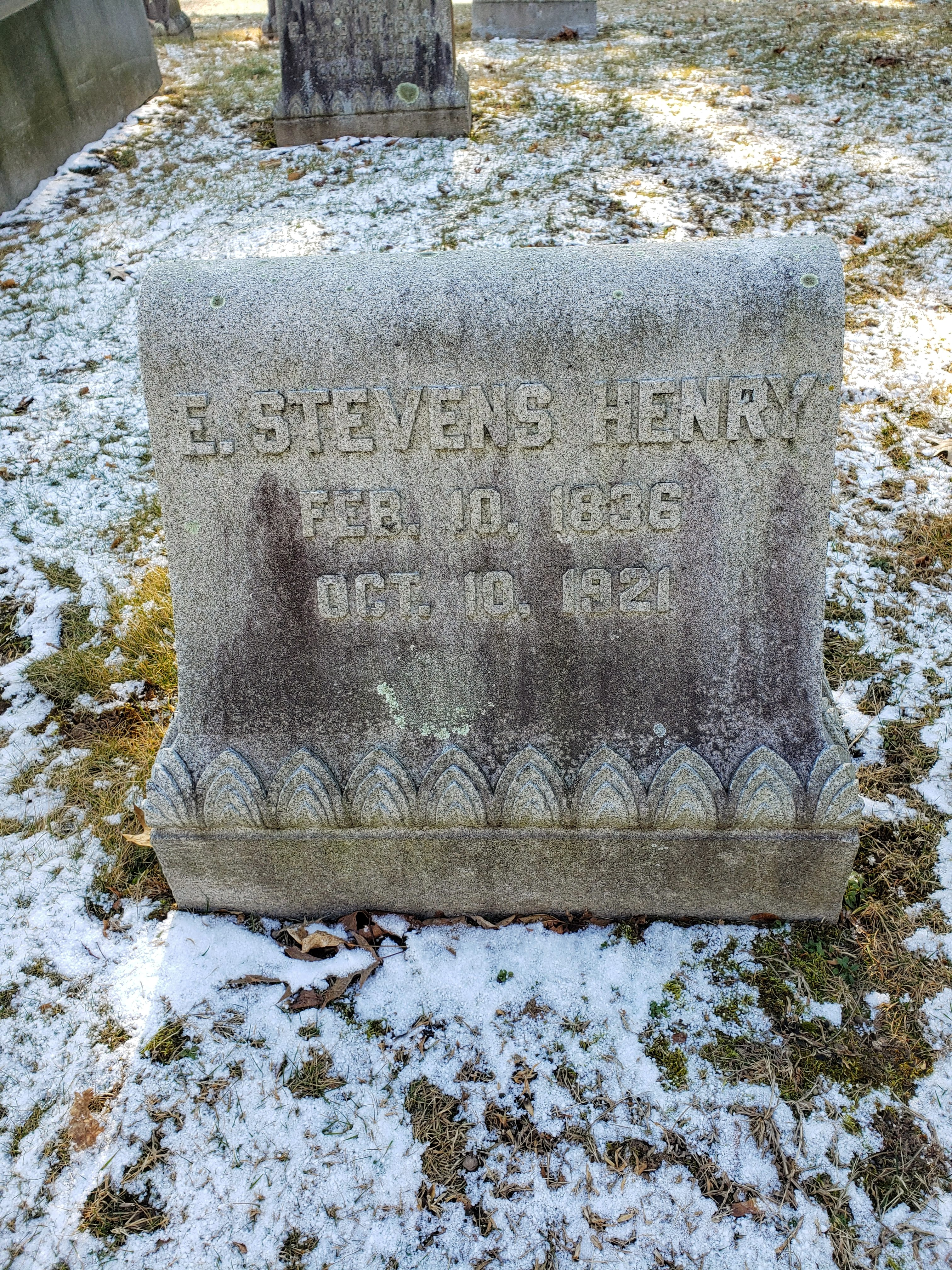 Edward Stevens Henry gravestone in Grove Hill Cemetery in Rockville, Connecticut. Photo taken January 2020.